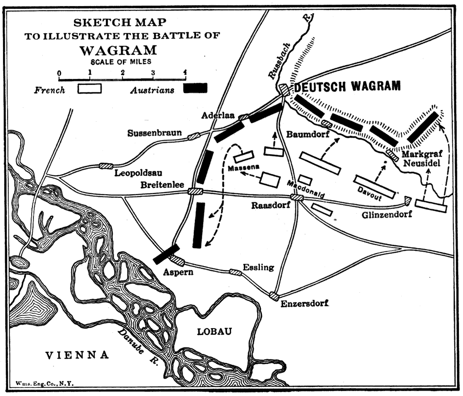 French counterattack at Wagram on the 6th of July 1809